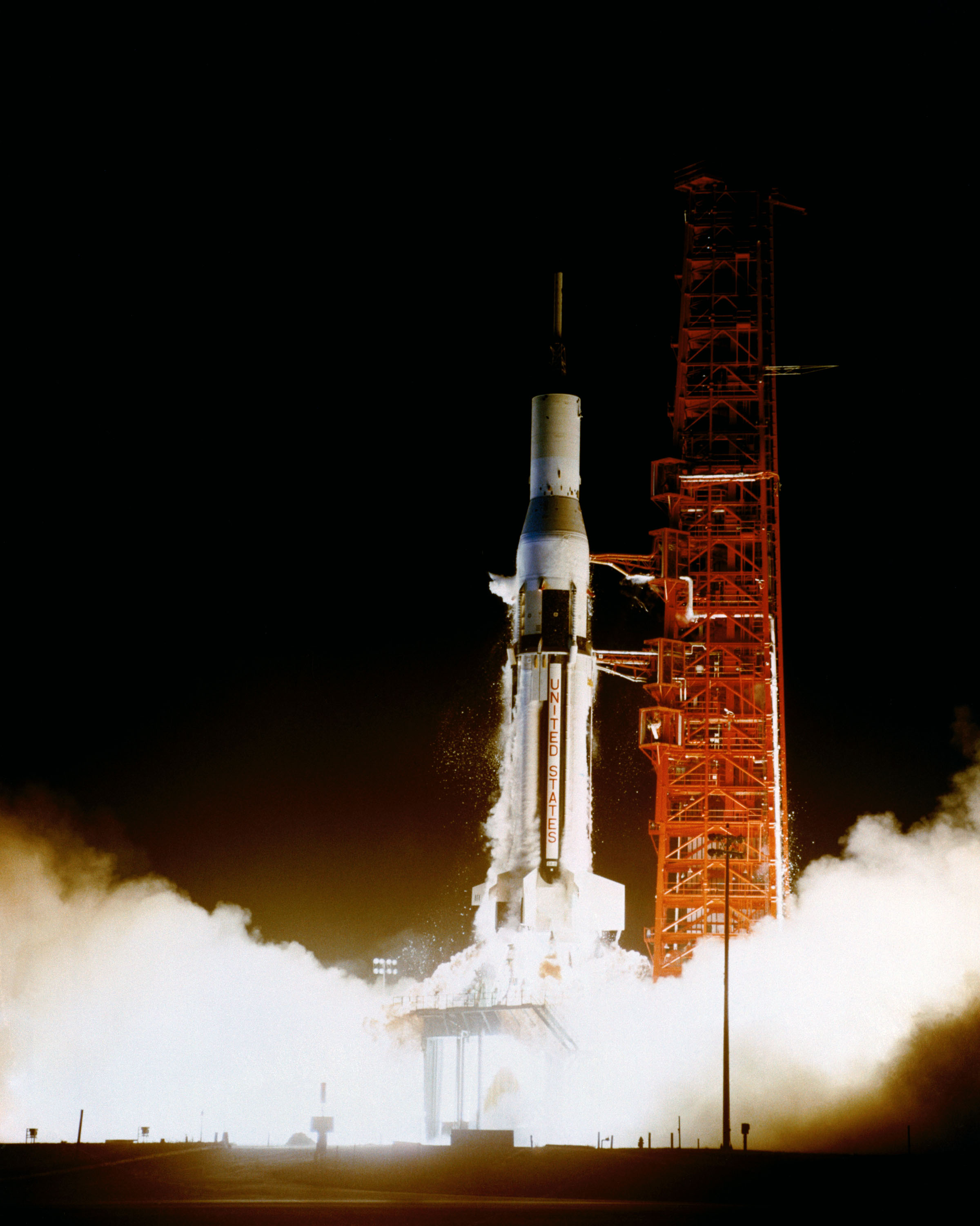 Night launch of the unmanned Saturn SA-8 mission